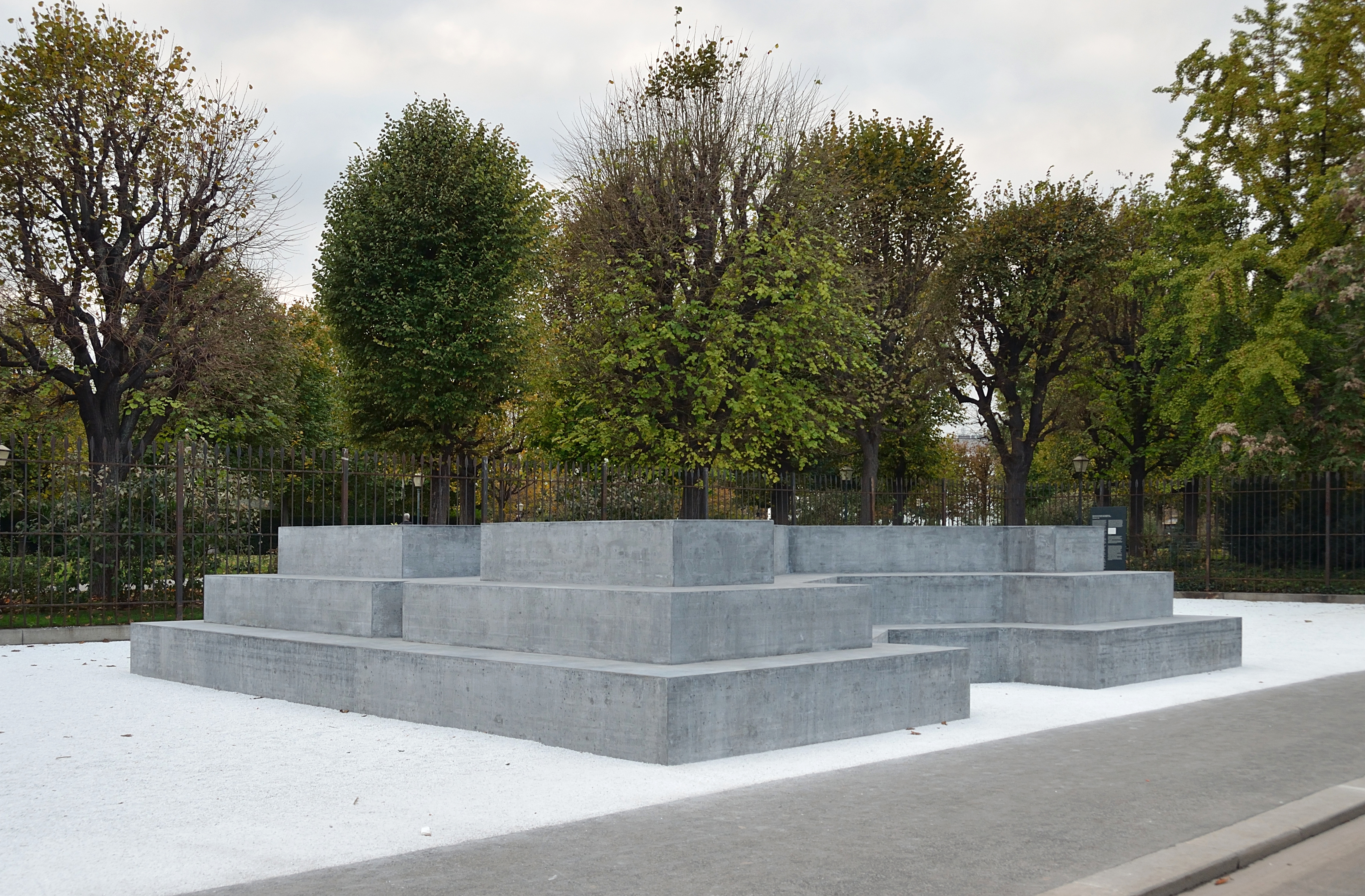 The memorial for the victims of Nazi Military Justice by Olaf Nicolai was created in 2014. It is located at the Ballhausplatz, Vienna, quite in the center of local Austrian government. Behind the Volksgarten.